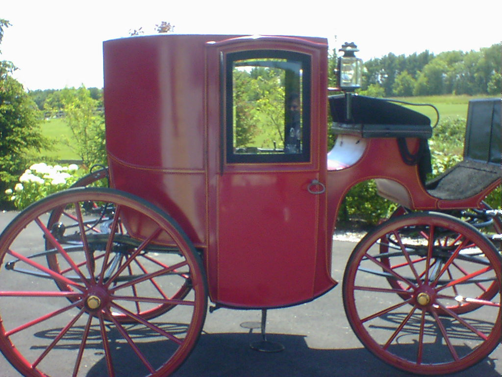 Profile view of Rauch and Lang Brougham Coach circa 1890.